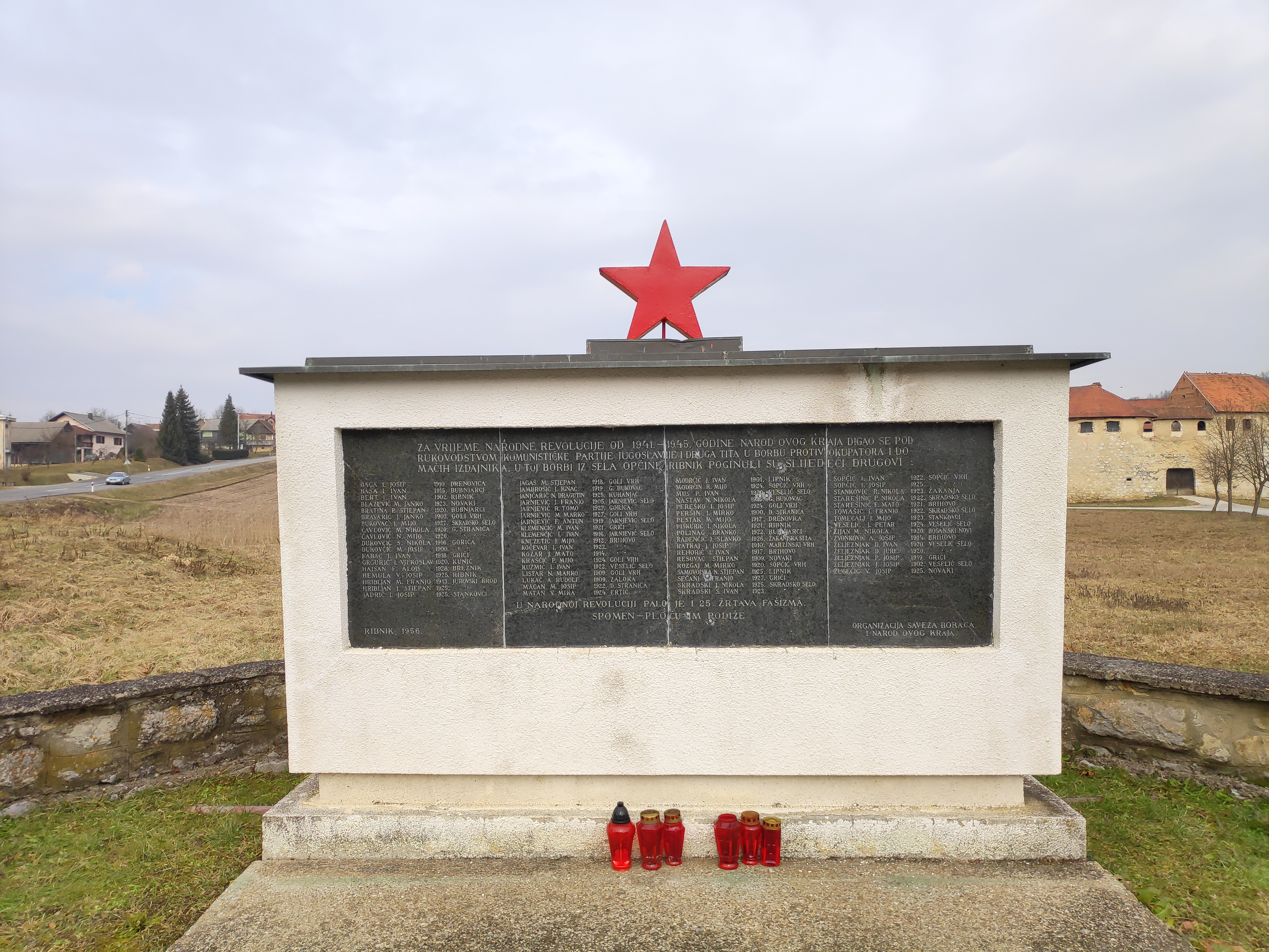 NOB u Ribniku (Karlovac)